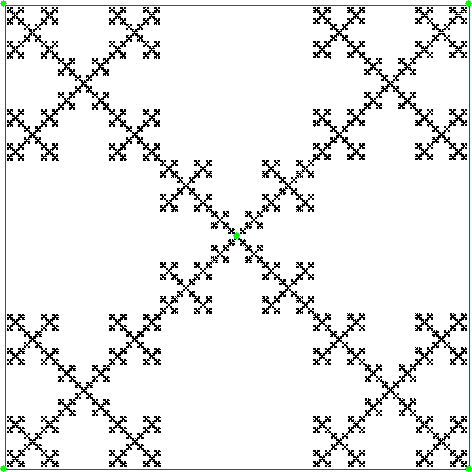 This image represents the Vicsek fractal when it is created by a point jumping at 2/3 of the way towards either the center or one of the four vertices of a square. The jumps take place at random.